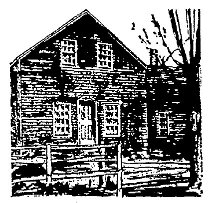 Original home of settler Ephraim Webster on Valley Drive in Syracuse, New York